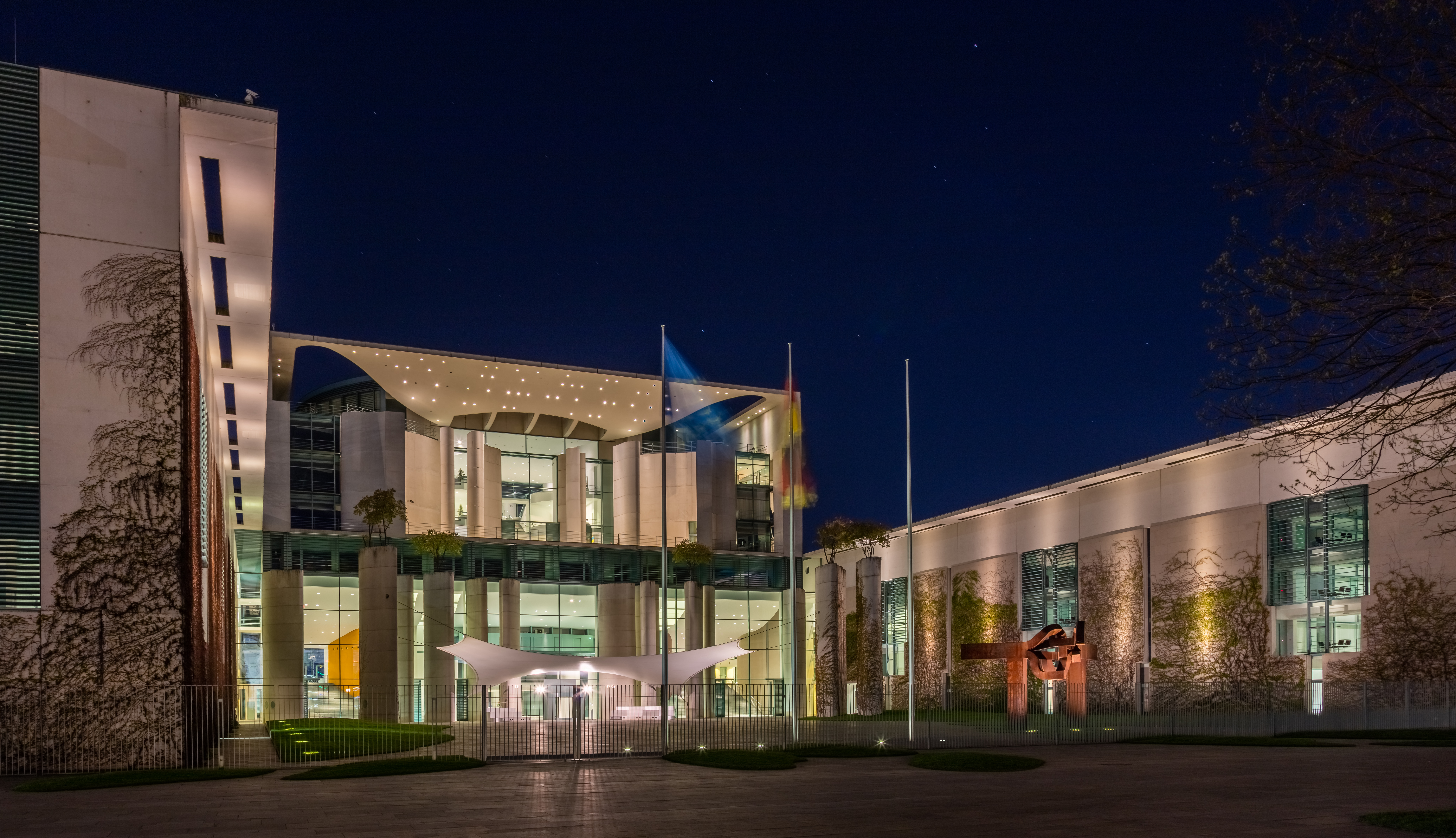 German Chancellery, Berlin, Germany